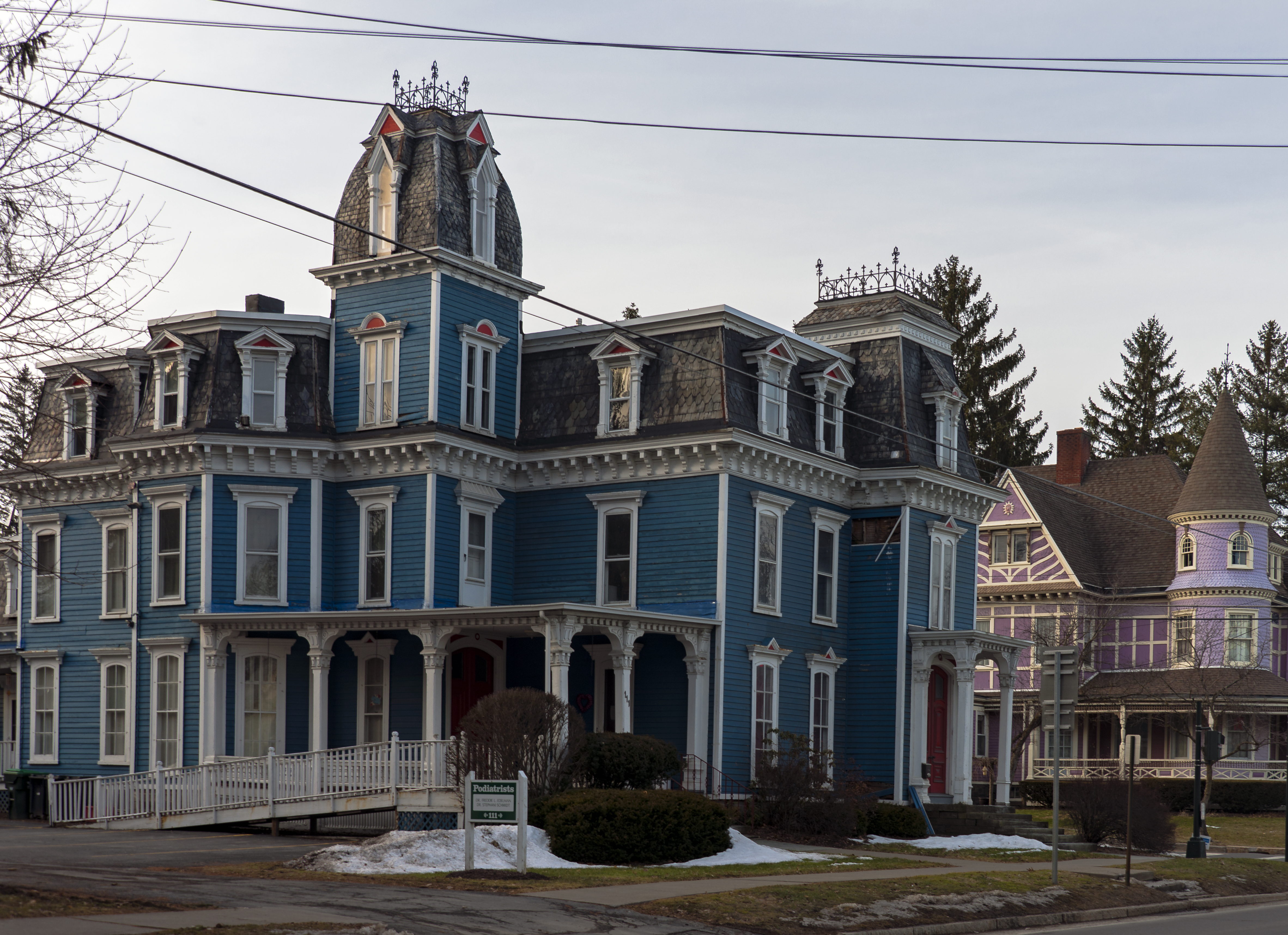 111 (left) and 113 North Broad Street (NY 12, with NY 23 passing between the houses), Norwich, NY, USA, both contributing properties to the North Broad Street Historic District.